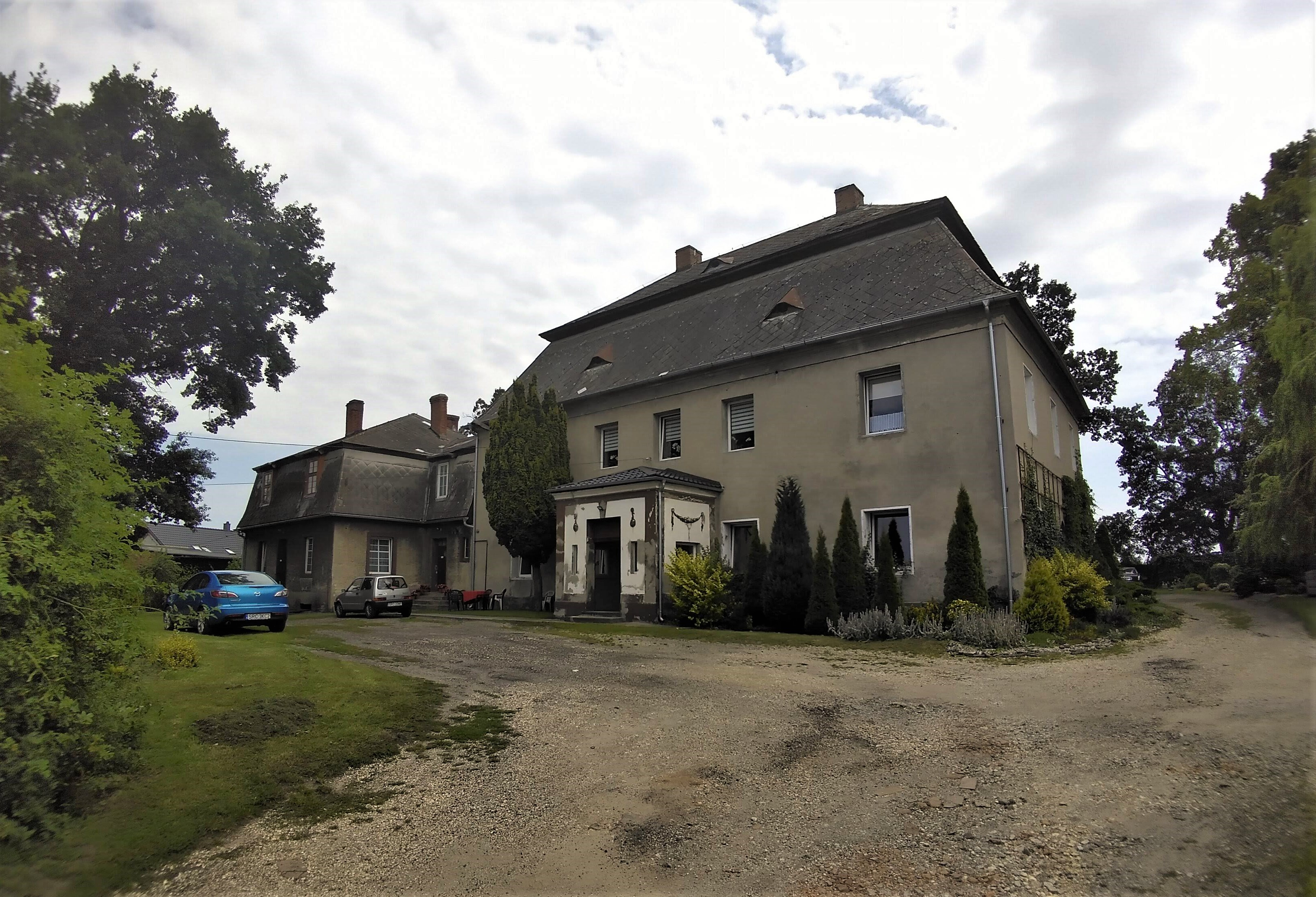 Manor house in Gródczanki, Upper Silesia, Poland